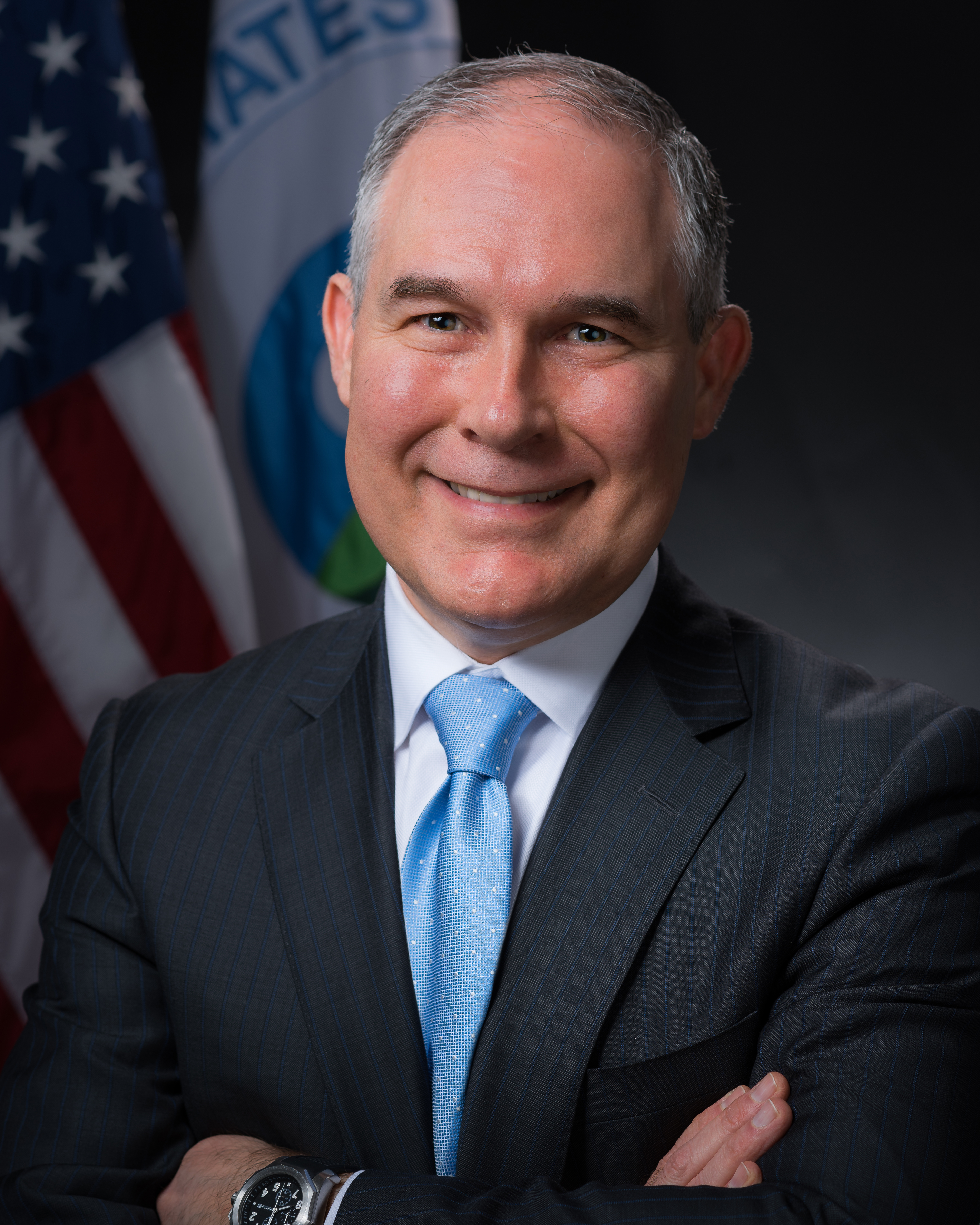 Official portrait of Scott Pruitt as Administrator of the Environmental Protection Agency